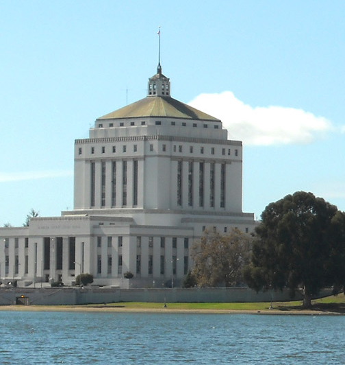 A closeup of the Alameda County Superior Court as seen from Lake Merritt.